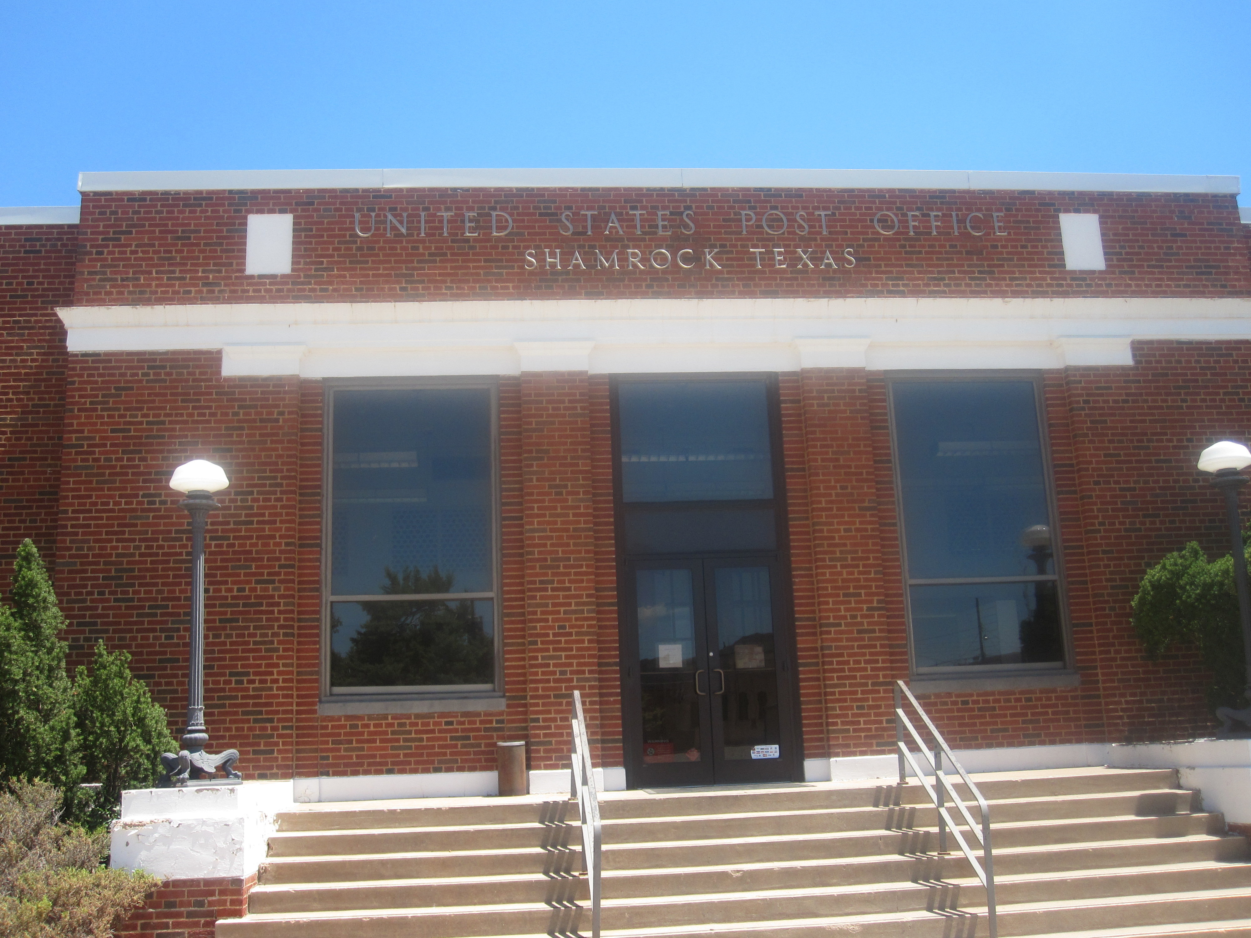 I took photo with Canon camera in Shamrock, TX.